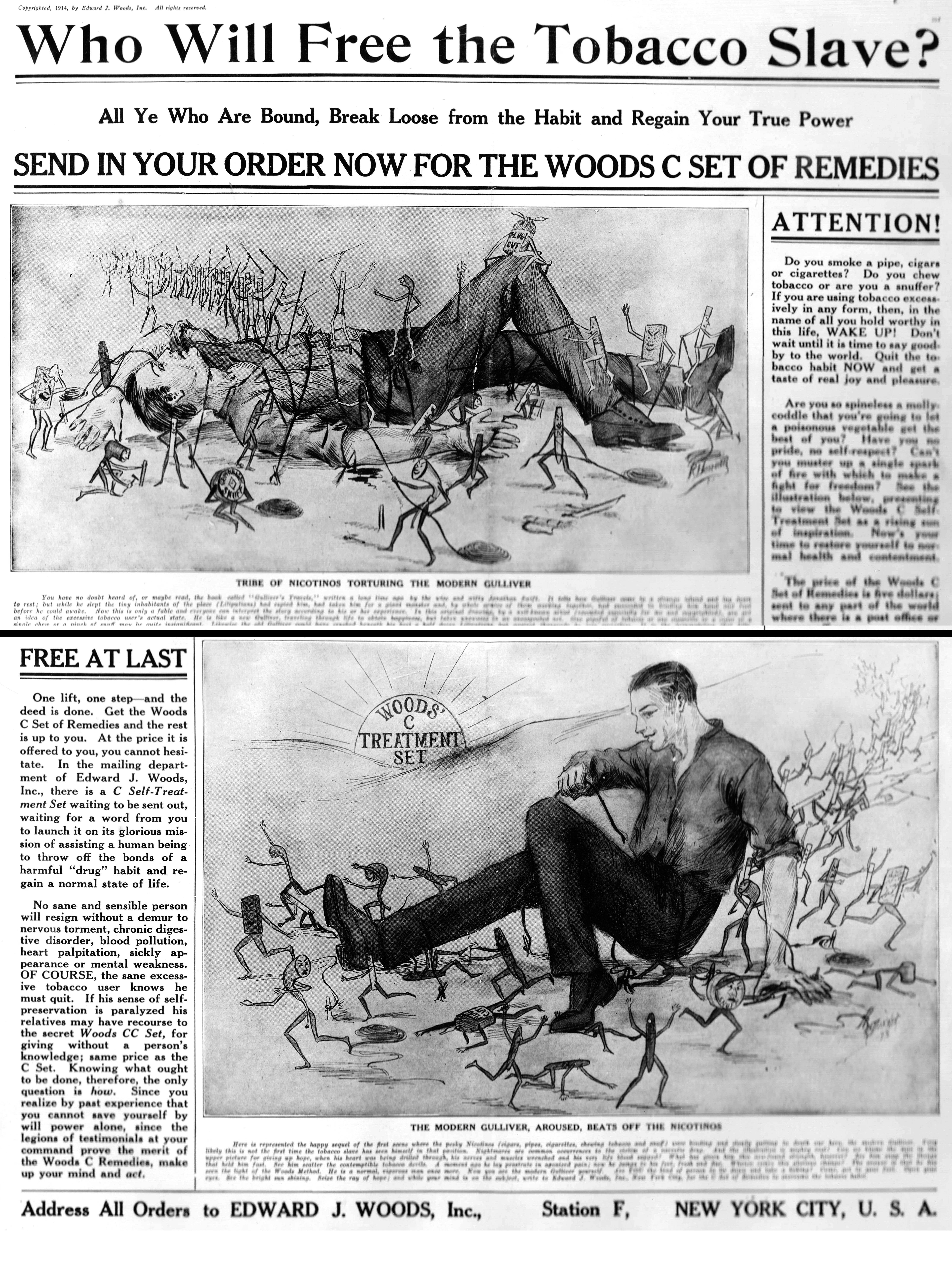 FDA’s investigation of this tobacco treatment as a cure for tobacco addiction focused on its advertising. Edward J. Woods attracted the attention of potential buyers with this dramatic graphic, and a lengthy monologue starting with “Are you so spineless a molly coddle that you’re going to let a poisonous vegetable get the best of you?” For more information about FDA history visit